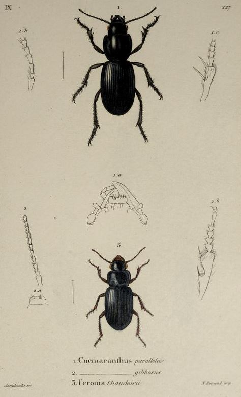 Barypus parallelus = Syn: Cnemacanthus parallelus Promecoderus gibbosus = Syn: Cnemacanthus gibbosus Trirammatus chaudoiri = Syn: Feronia (Trirammatus) Chaudoirii